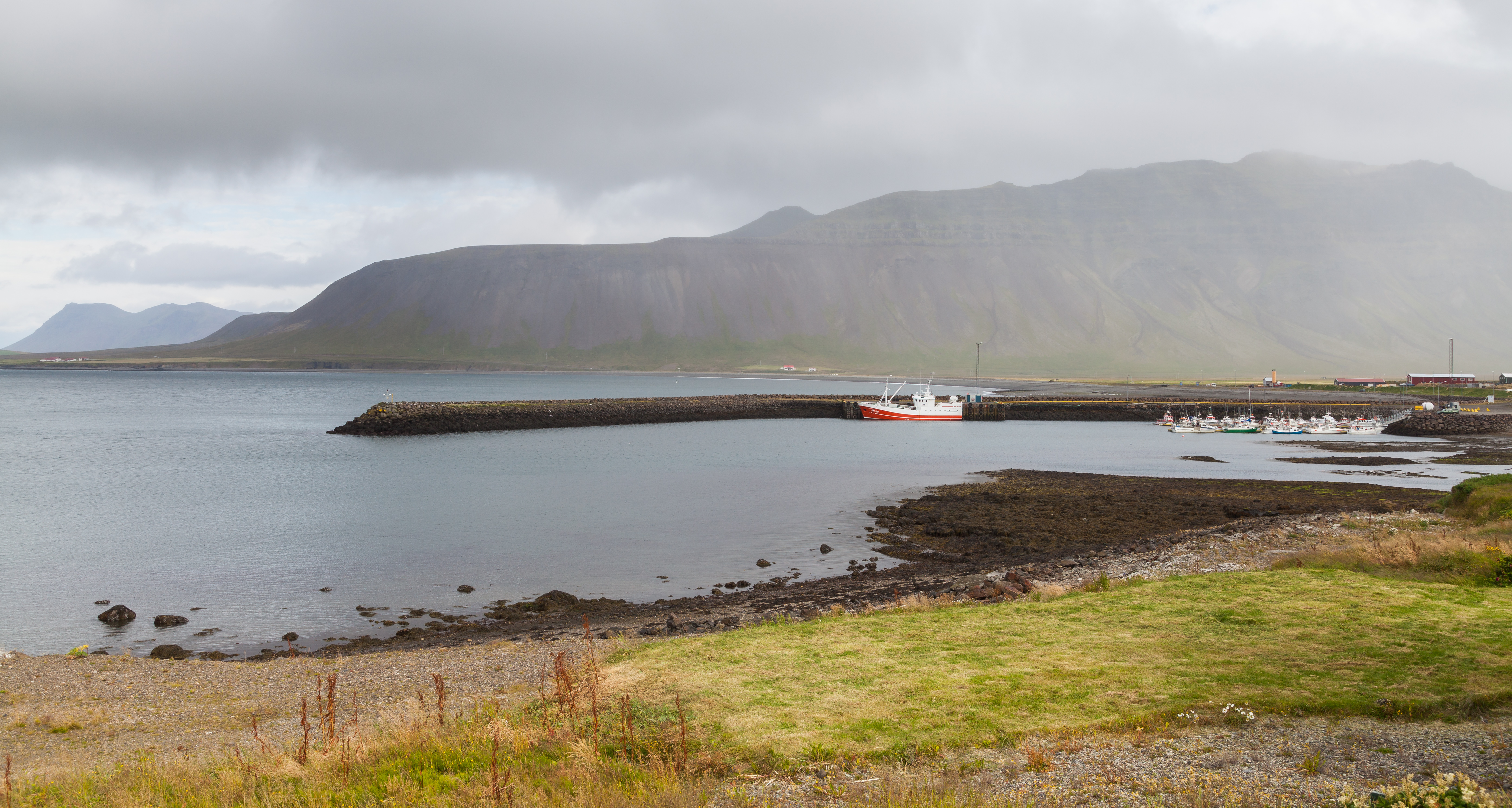 Grundarfjörður, Vesturland, Iceland